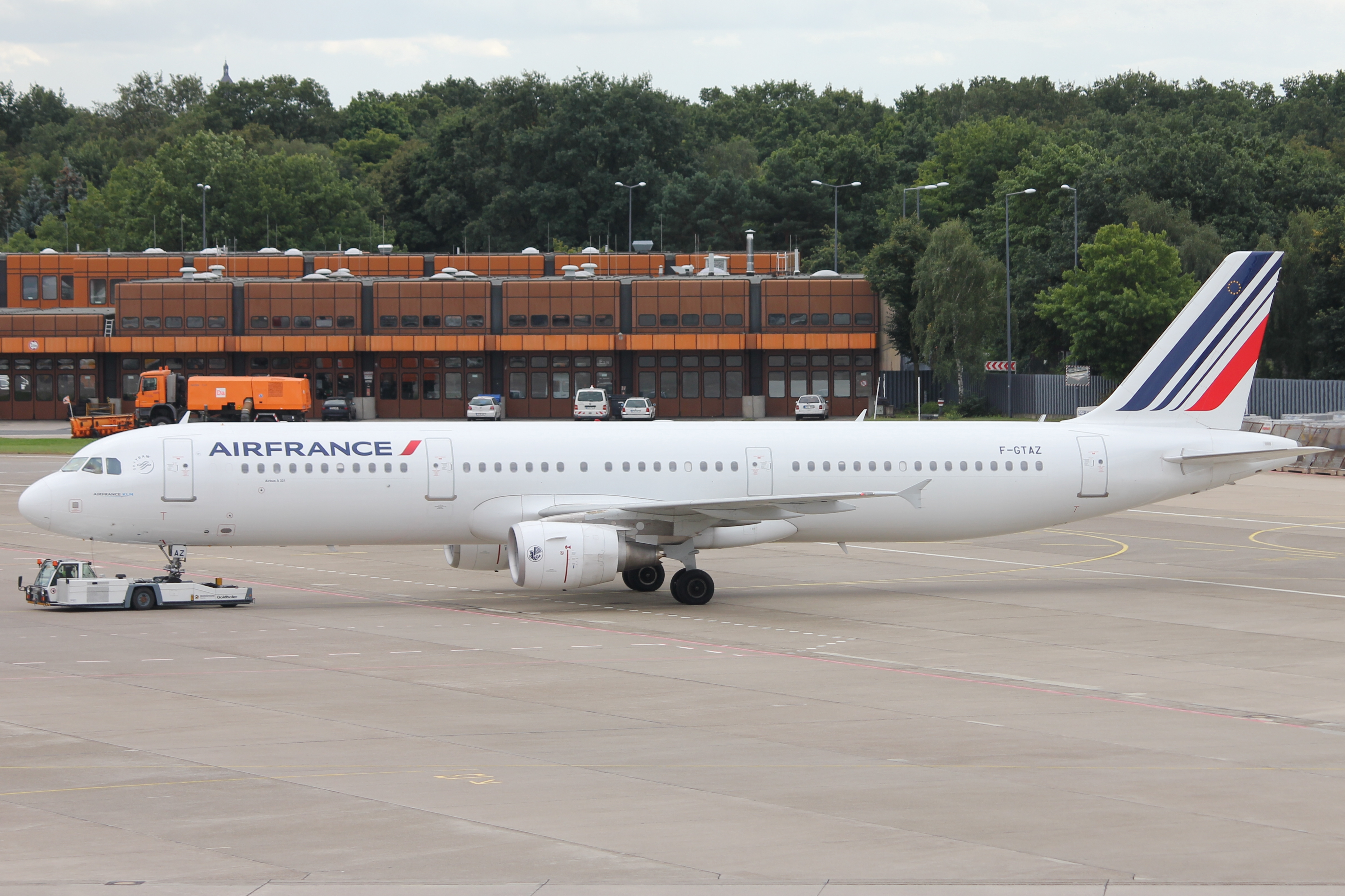 An Airfrance A321 taxies at Berlin-Tegel Airport